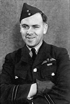 England c. 1943-11. Portrait of Flight Lieutenant James Rowland DFC, RAAF. N.B. Accordng to correspondence between Ian Rose and the Australian War Memorial on 18 July 2012, this portrait is not of Flight Lieutenant James Anthony Rowland DFC, RAAF, later Chief of the Air Staff and Governor of New South Wales.